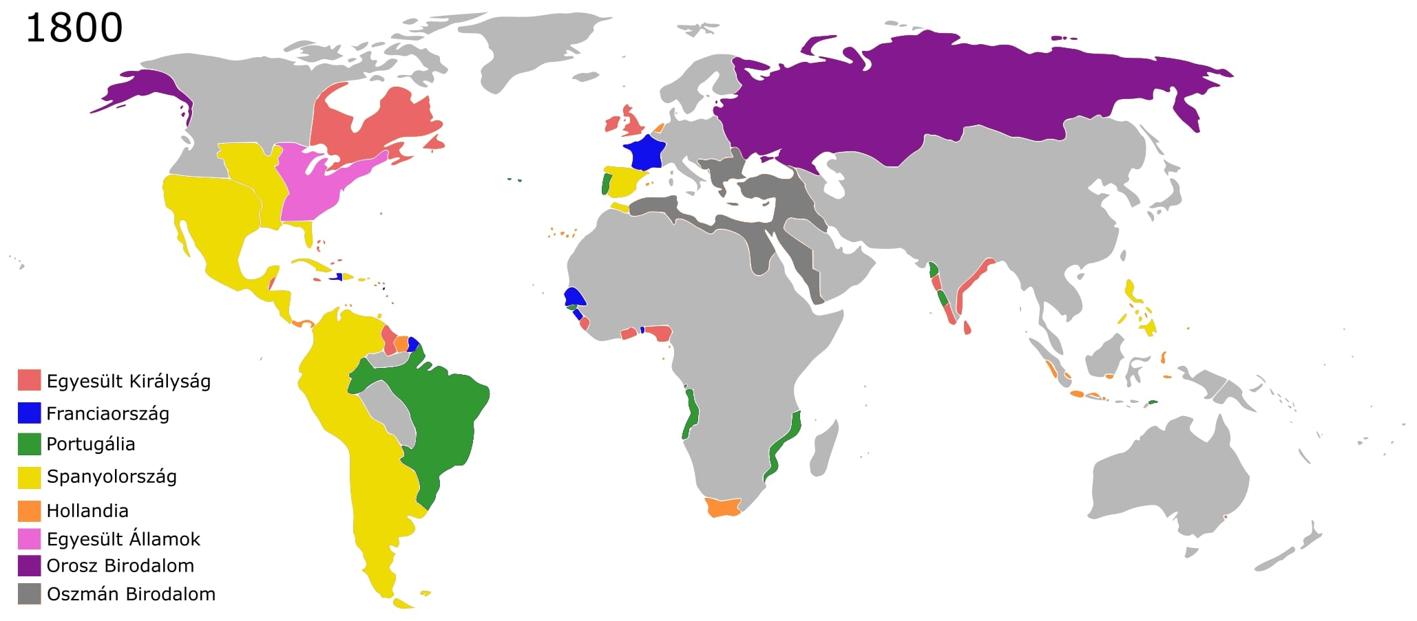 Colonisation in 1800_in_Hungarianlabel QS:Len,"Colonisation in 1800_in_Hungarian"